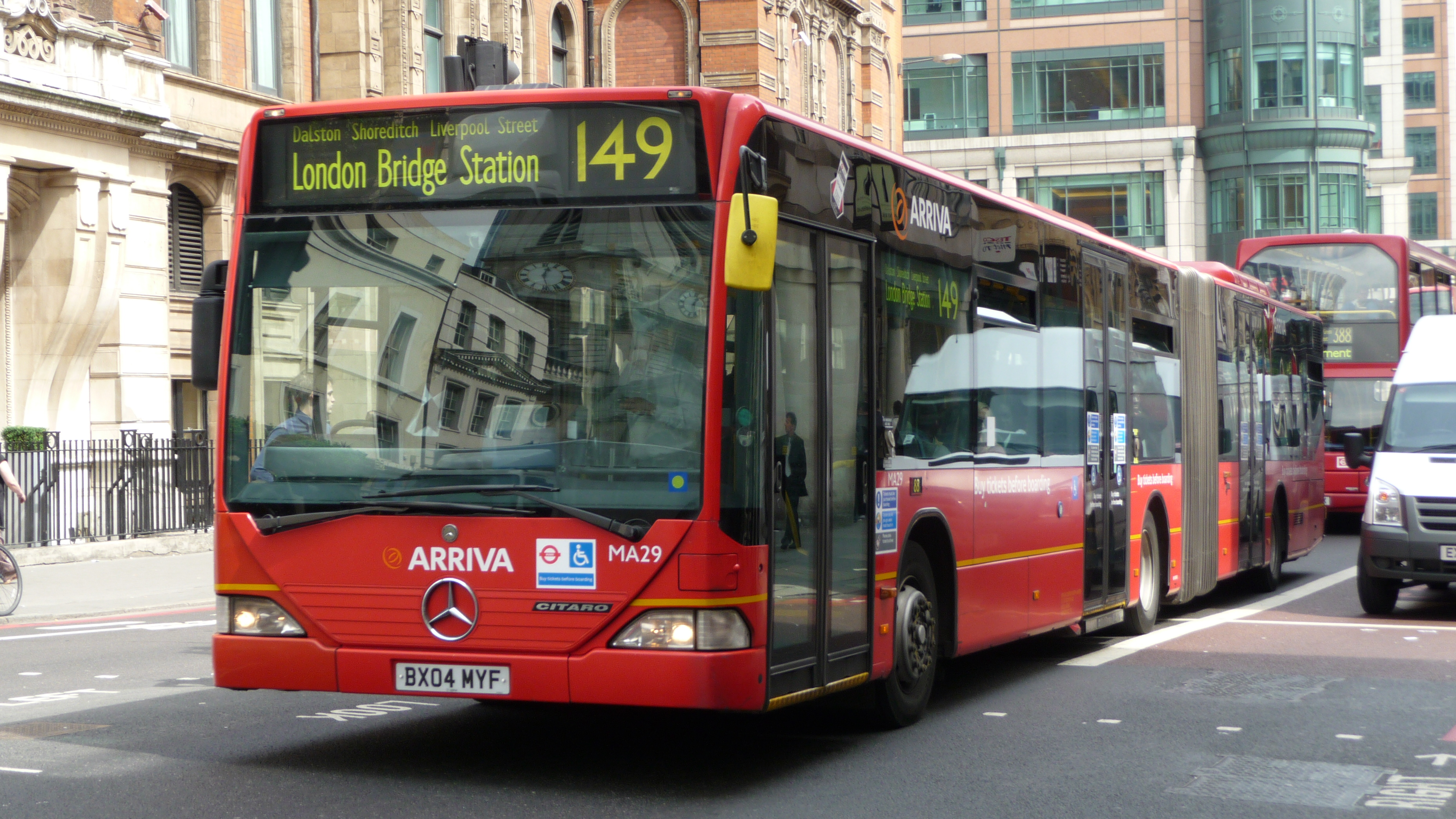 Arriva London North MA29 (BX04 MYF), a Mercedes-Benz Citaro G, in Bishopsgate, City of London, at the junction with Liverpool Street, on route 149.